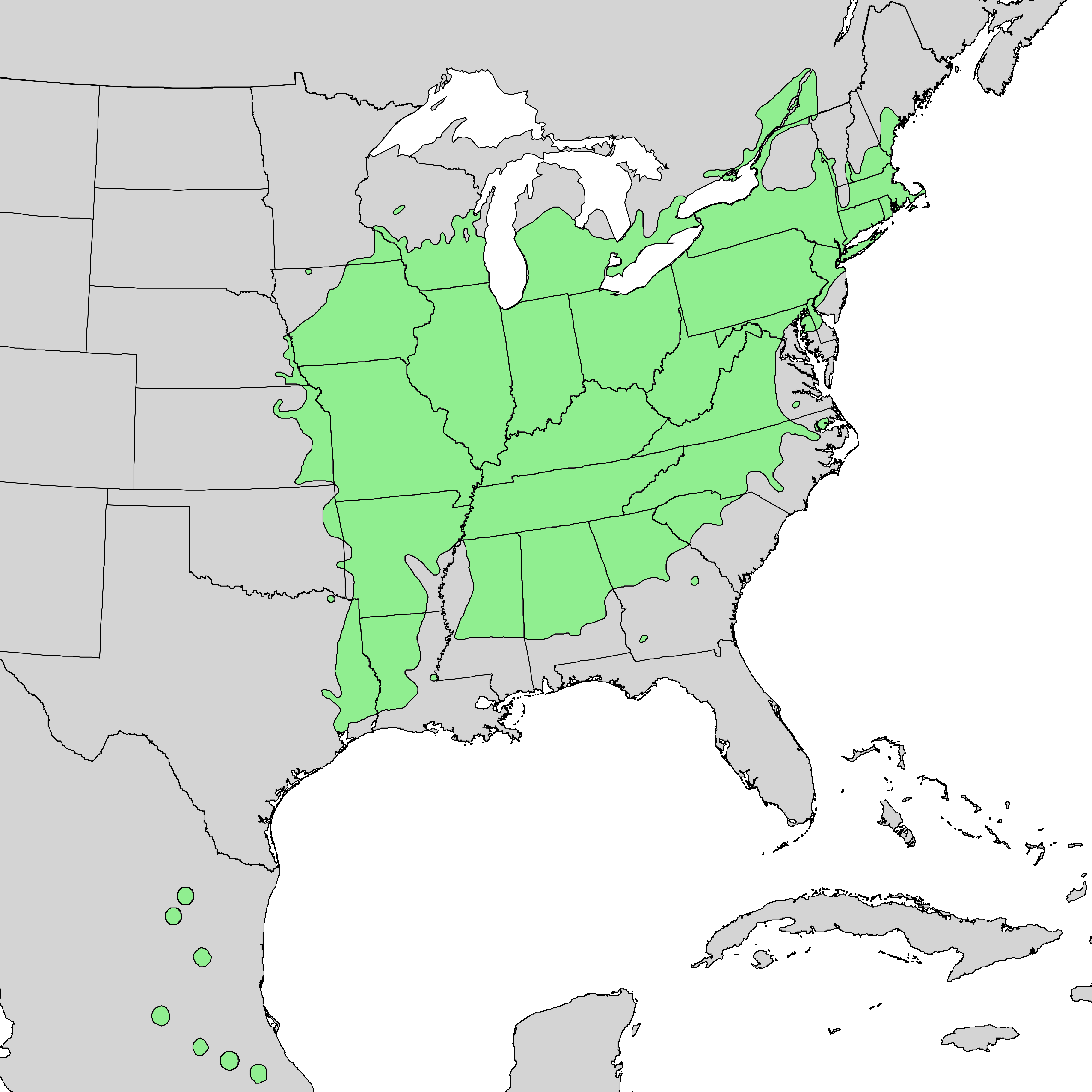 Natural distribution map for Carya ovata